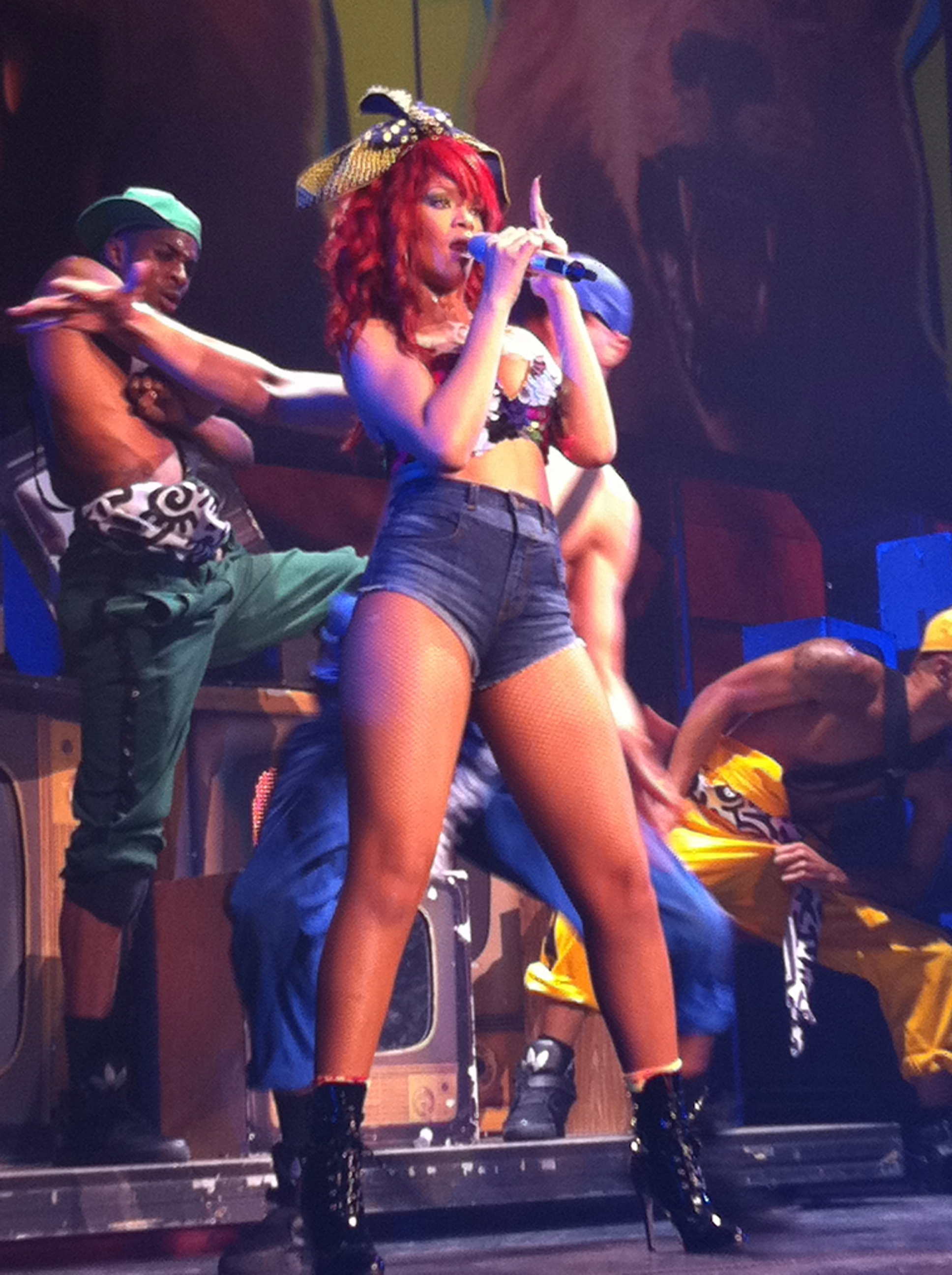 Rihanna live in Canada, on her tour The LOUD Tour. 24th June 2011